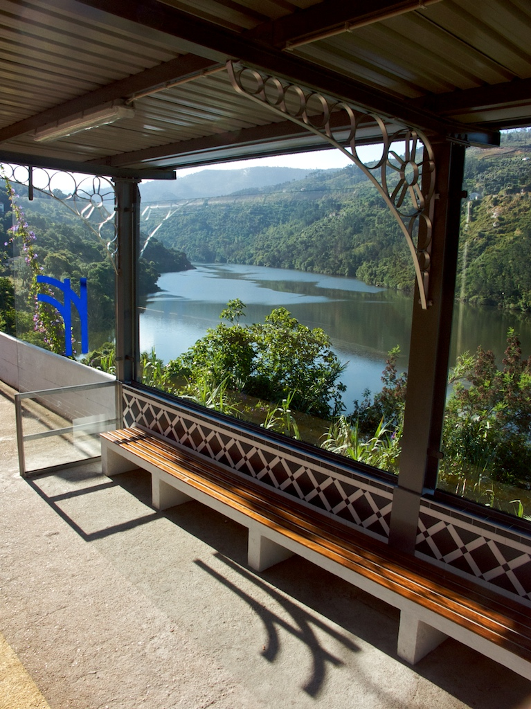 Railway Station of Mosteirô with view to the river Douro